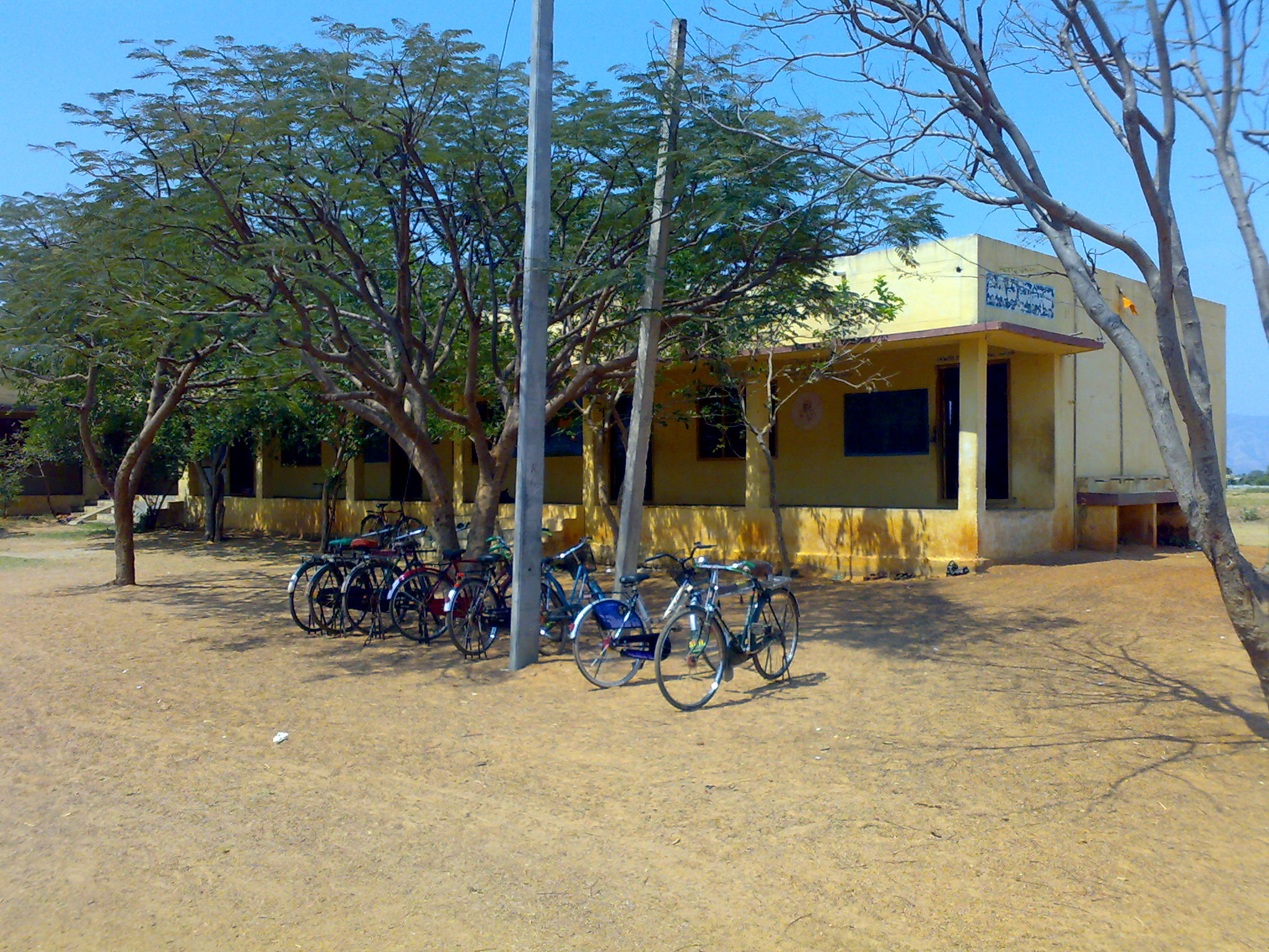 This Picture is of a Government School in Muchivolu Village, Srikalahasti Mandal, Chittoor District, Andhra Pradesh , India.